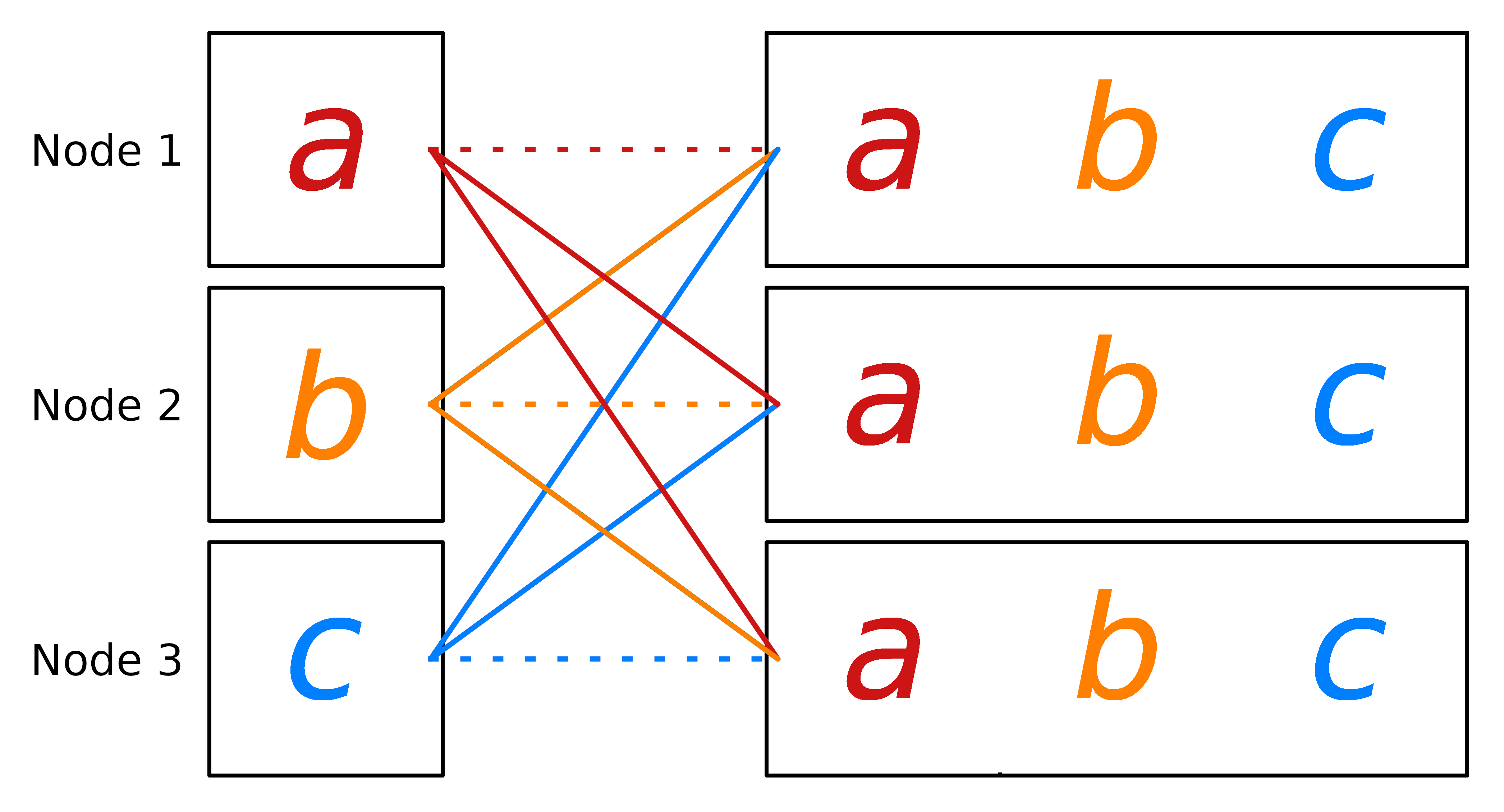 Every node accumulates information from every other node, so that all nodes have the same information.